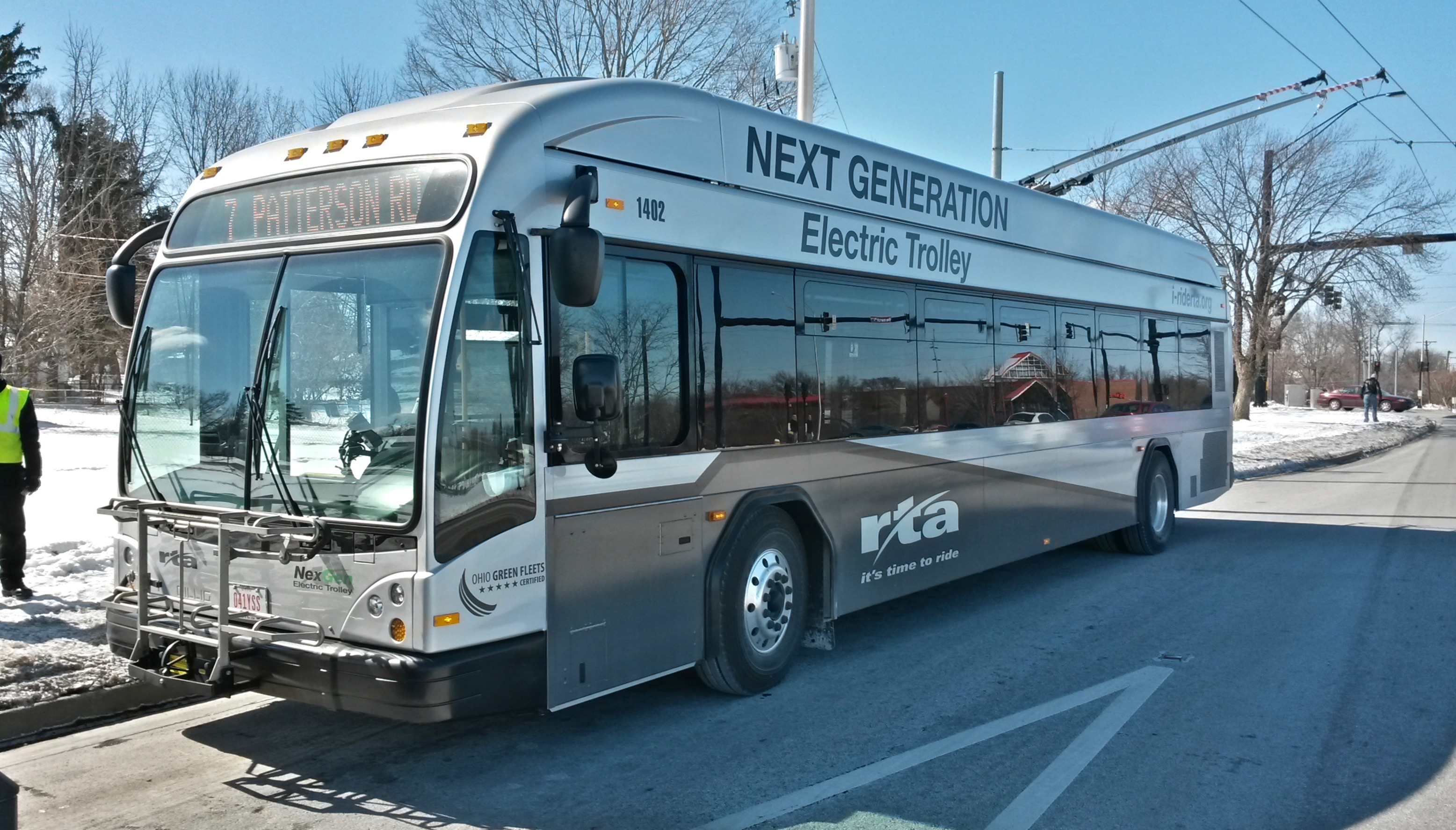 Greater Dayton RTA Gillig dual-mode bus 1402 in February 2015, in service on trolleybus route 7 and operating in trolley mode. No. 1402 was built in 2014 and entered service on January 5, 2015 (information from Trolleybus Magazine, March-April 2015).